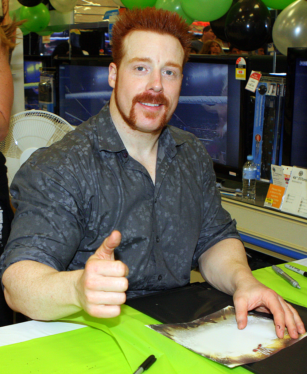 WWE Superstar Sheamus Big W Appearance at Bankstown, Sydney; St Patrick's Day 2012.